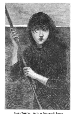 Maggie Tulliver, protagonist of The Mill on the Floss by George Eliot. Drawing by Frederick S Church